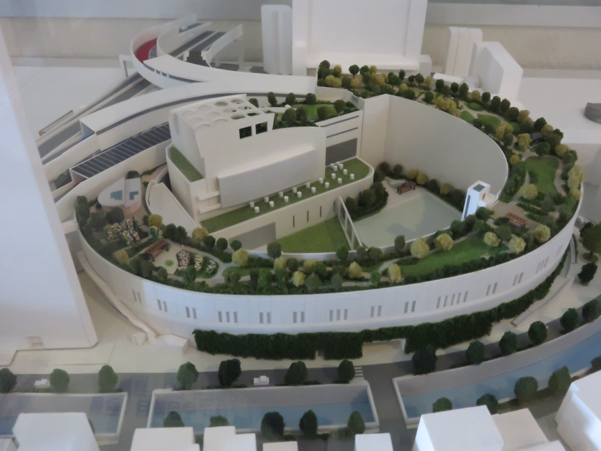 Meguro Sky Garden Scale Model